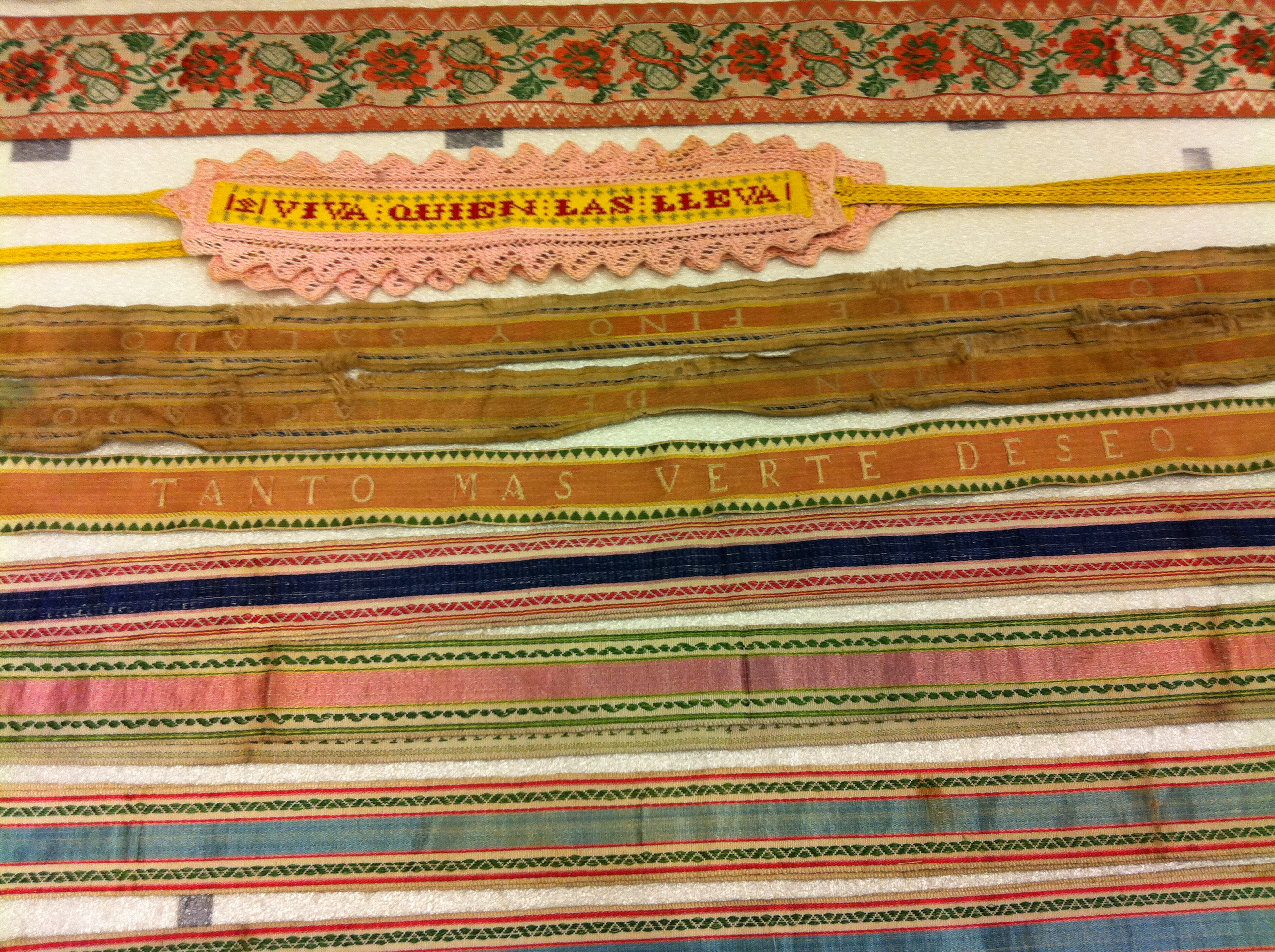 Documentation Center and Textile Museum of Terrassa